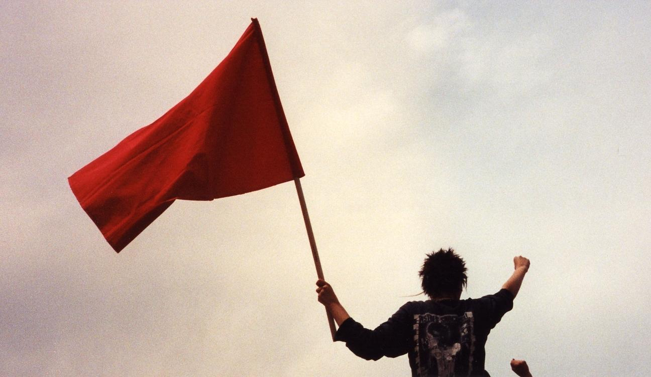 Photo: Soman